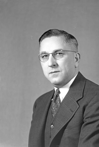 Representative O. R. Schumann, 1939